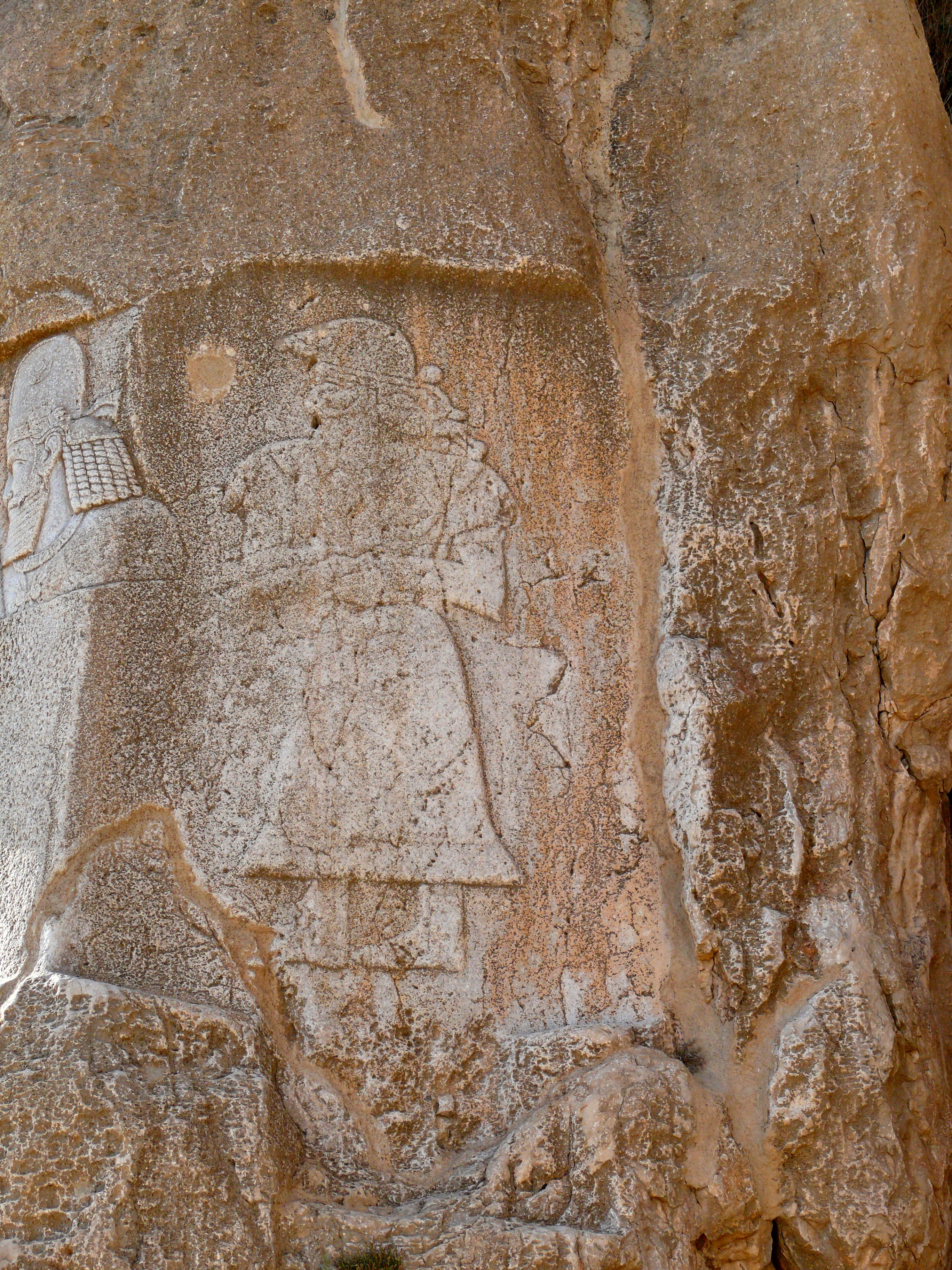 Remnant of an elamite rock relief erased by later Sasanian rock relief of Naqsh-e Rostam II. The artefact shows an elamite prince wearing a typical long dress and a projected forward hat, dating of 18-16th century BCE. Other remnants of this relief can be seen there, there, and there. Taken at Naqsh-e Rostam, Vicinity of Marvdasht, Fars province, Iran, April 2008.